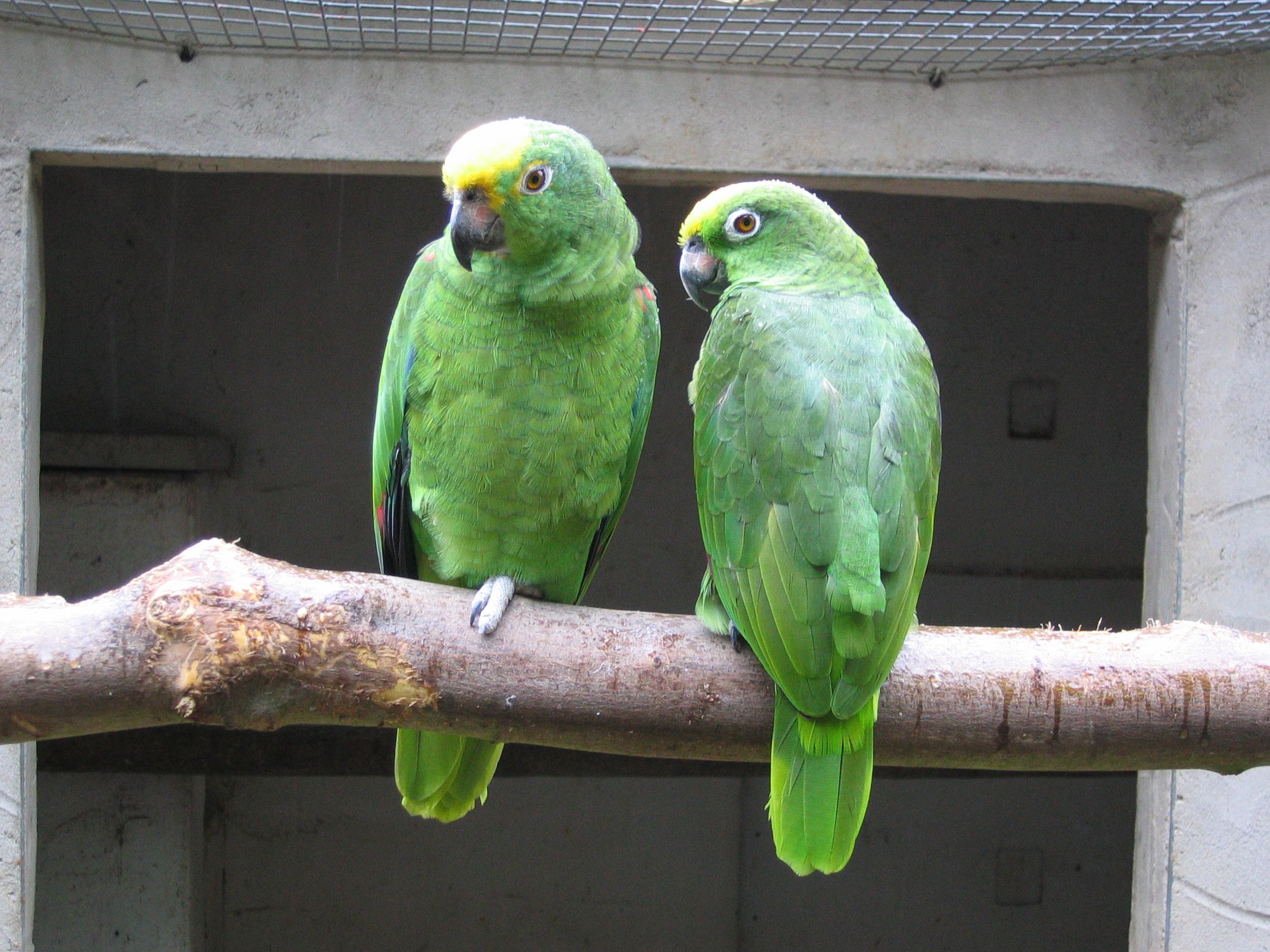 Yellow-crowned Amazon or Yellow-crowned Parrot (Amazona ochrocephala) at Well Place Zoo, near Reading.